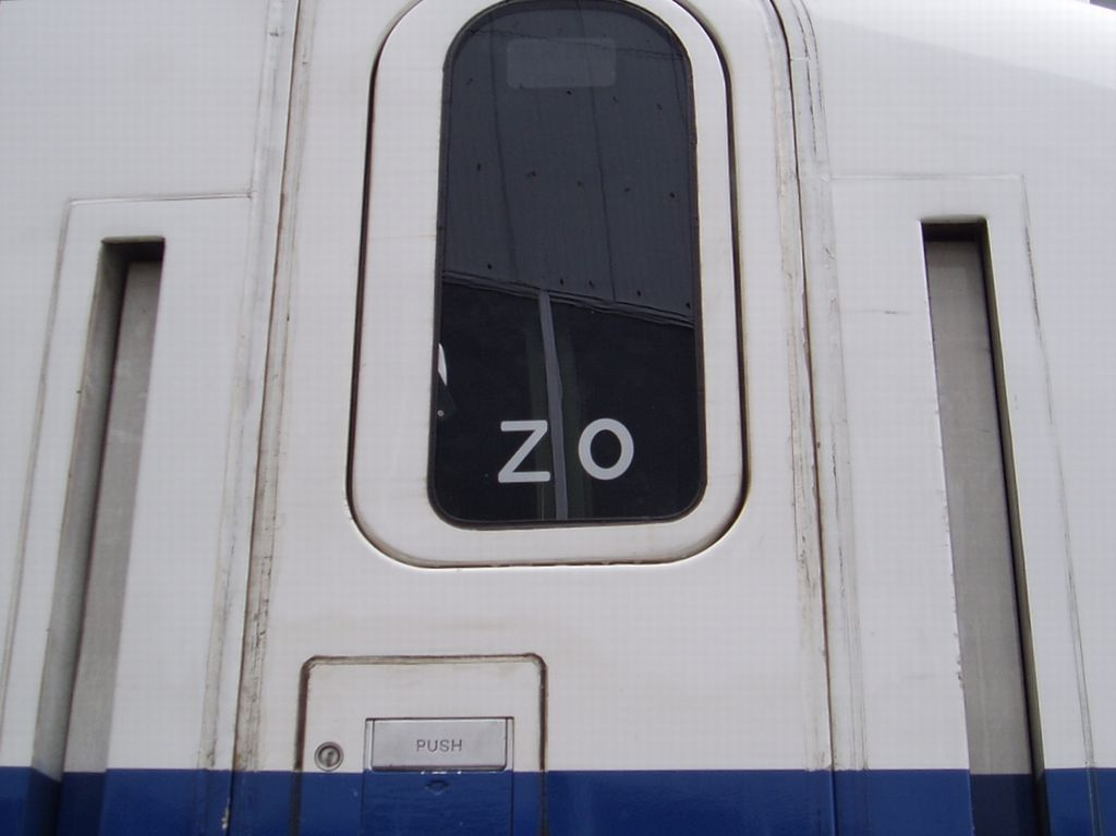 Formation Number of Train(Central Japan Railway co., type N700)